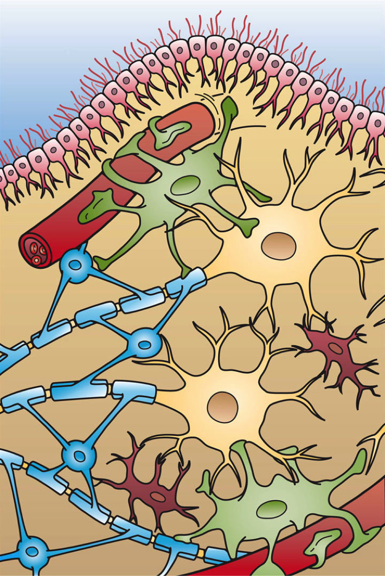 This image shows the four different types of glial cells found in the central nervous system: Ependymal cells (light pink), Astrocytes (green), Microglial cells (red), and Oligodendrocytes (functionally similar to Schwann cells in the PNS) (light blue).